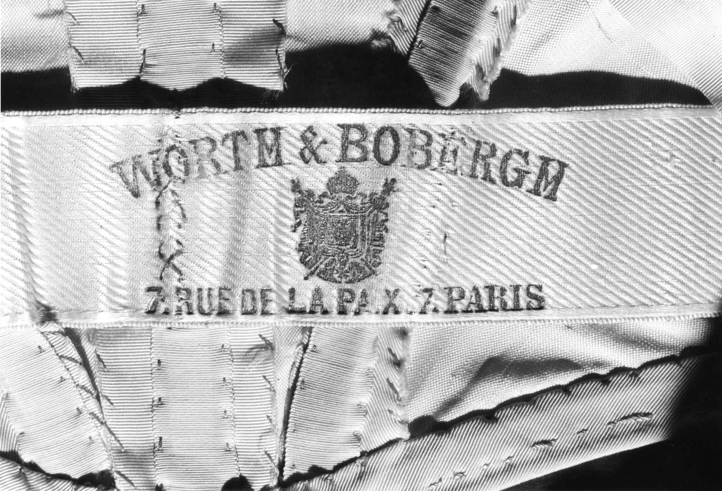 French; Evening bodice